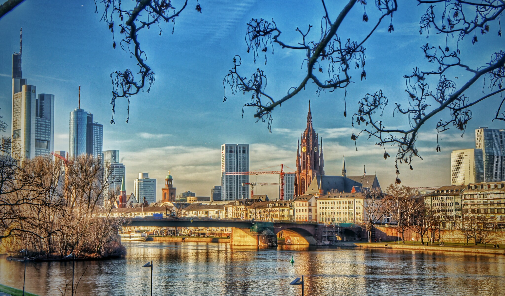 At December river, ffm